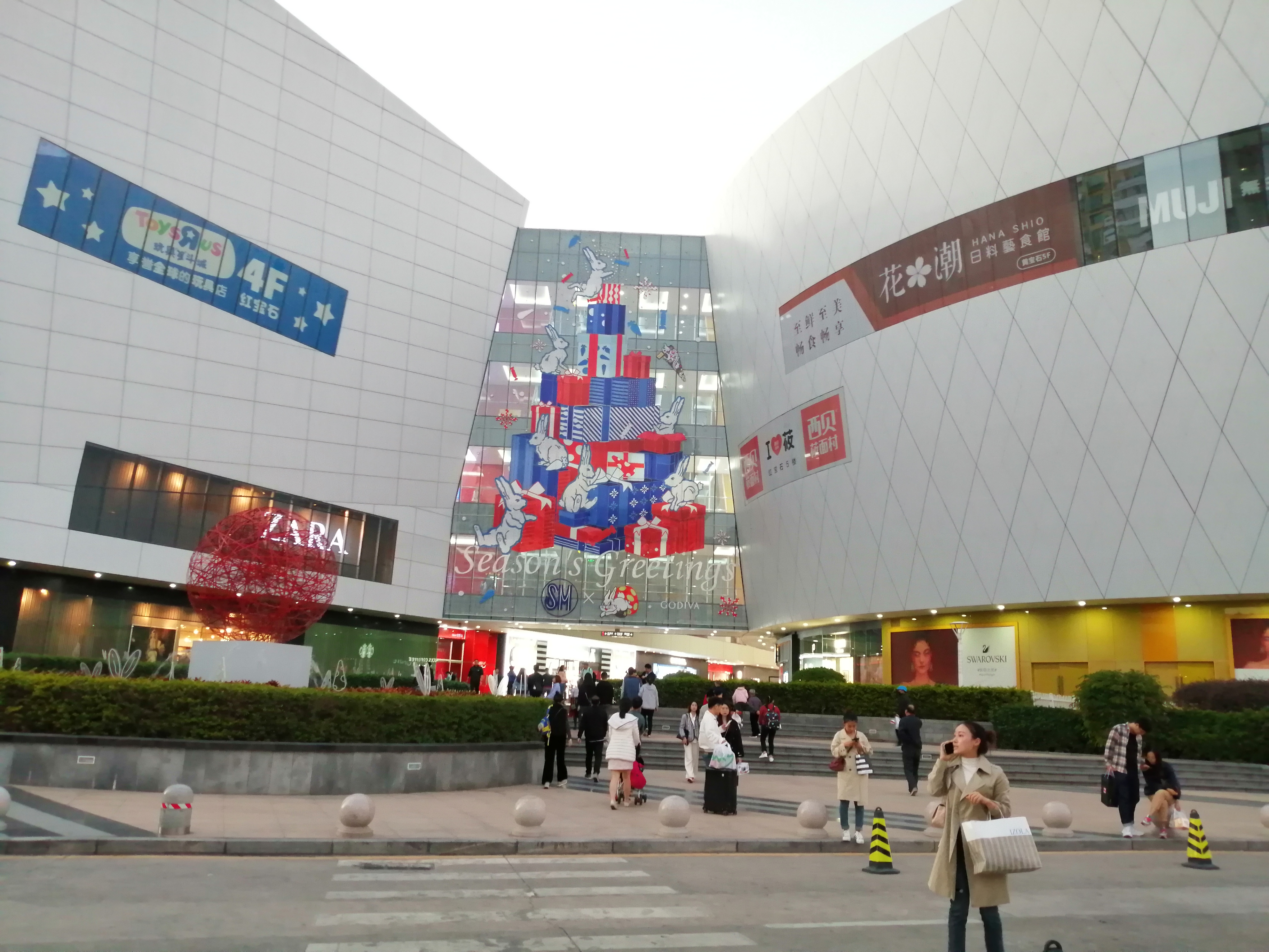 White Rabbit promotion on the wall. And I just go to Tao Tao Ju to have a dinner...